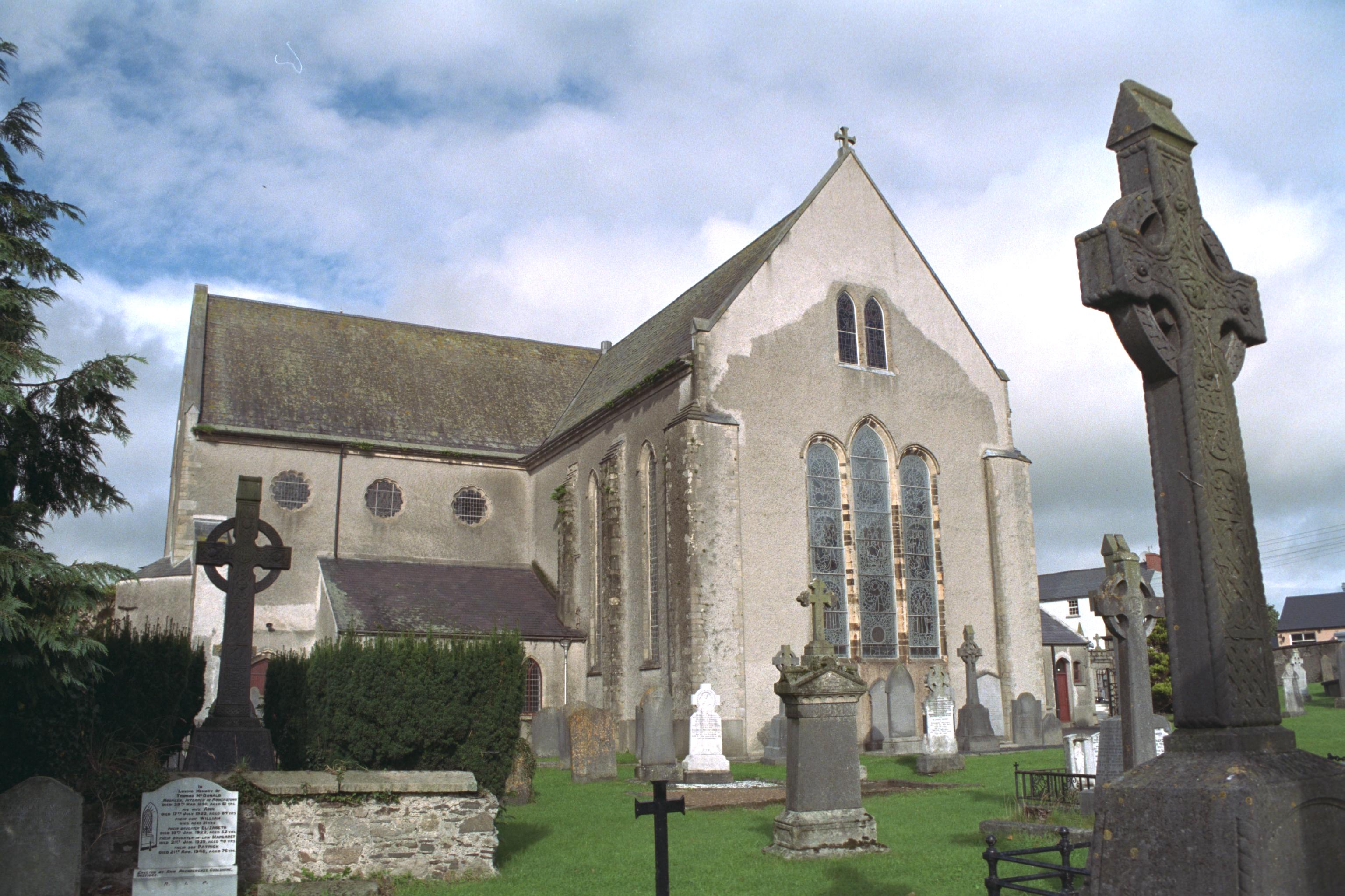 Graiguenamanach, County Kilkenny, Ireland Choir Window as seen from South East